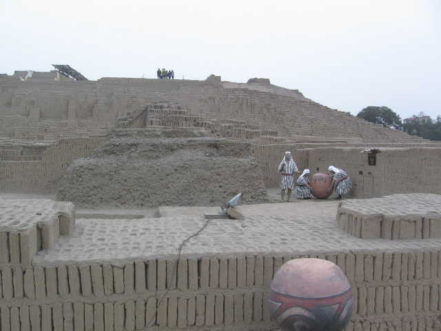 View of the pyramid from the bottom to the top